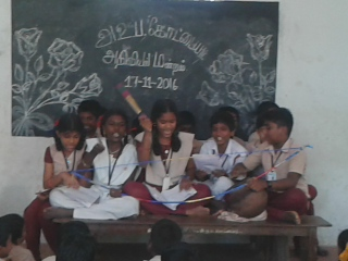 பயிற்சி வகுப்பு